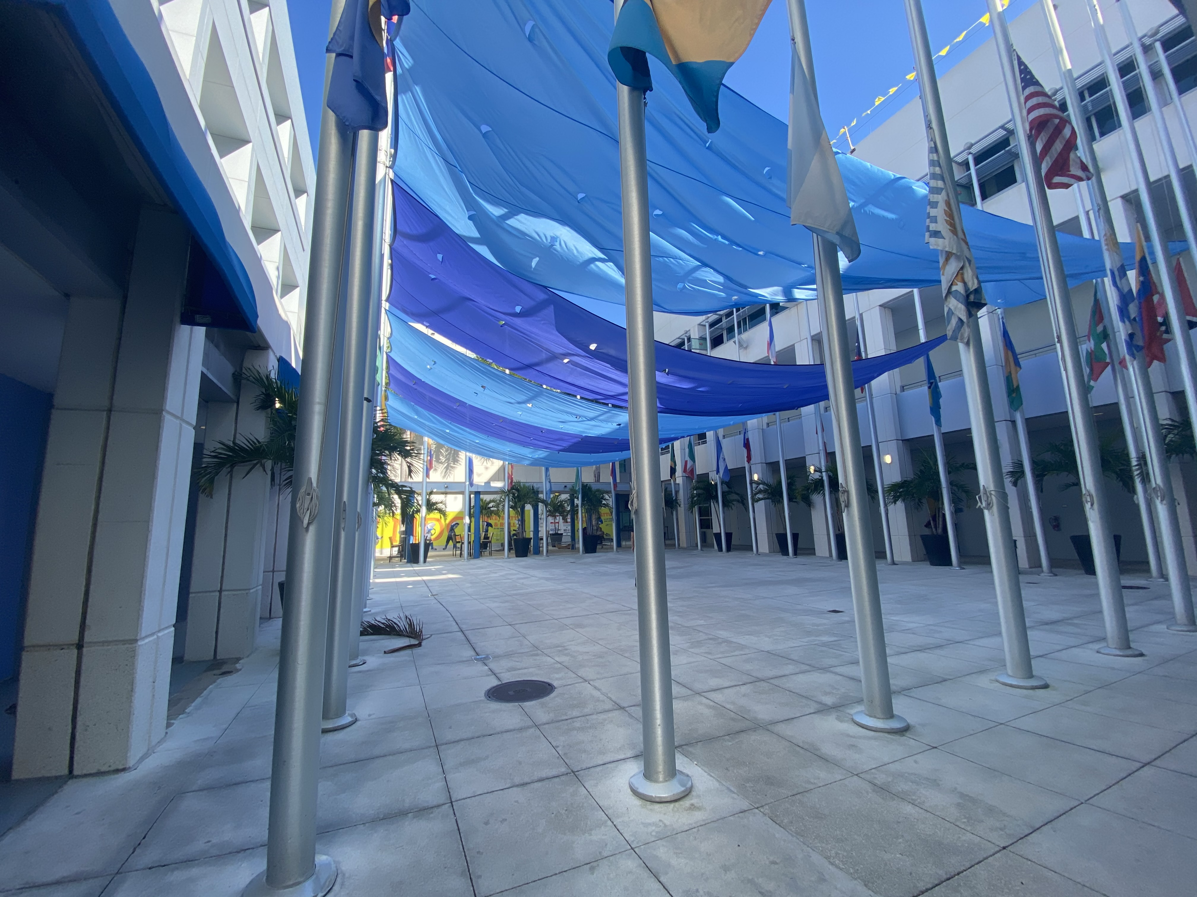 This is the Flag and walkway at the Center of the Eduardo J. Pardon Campus